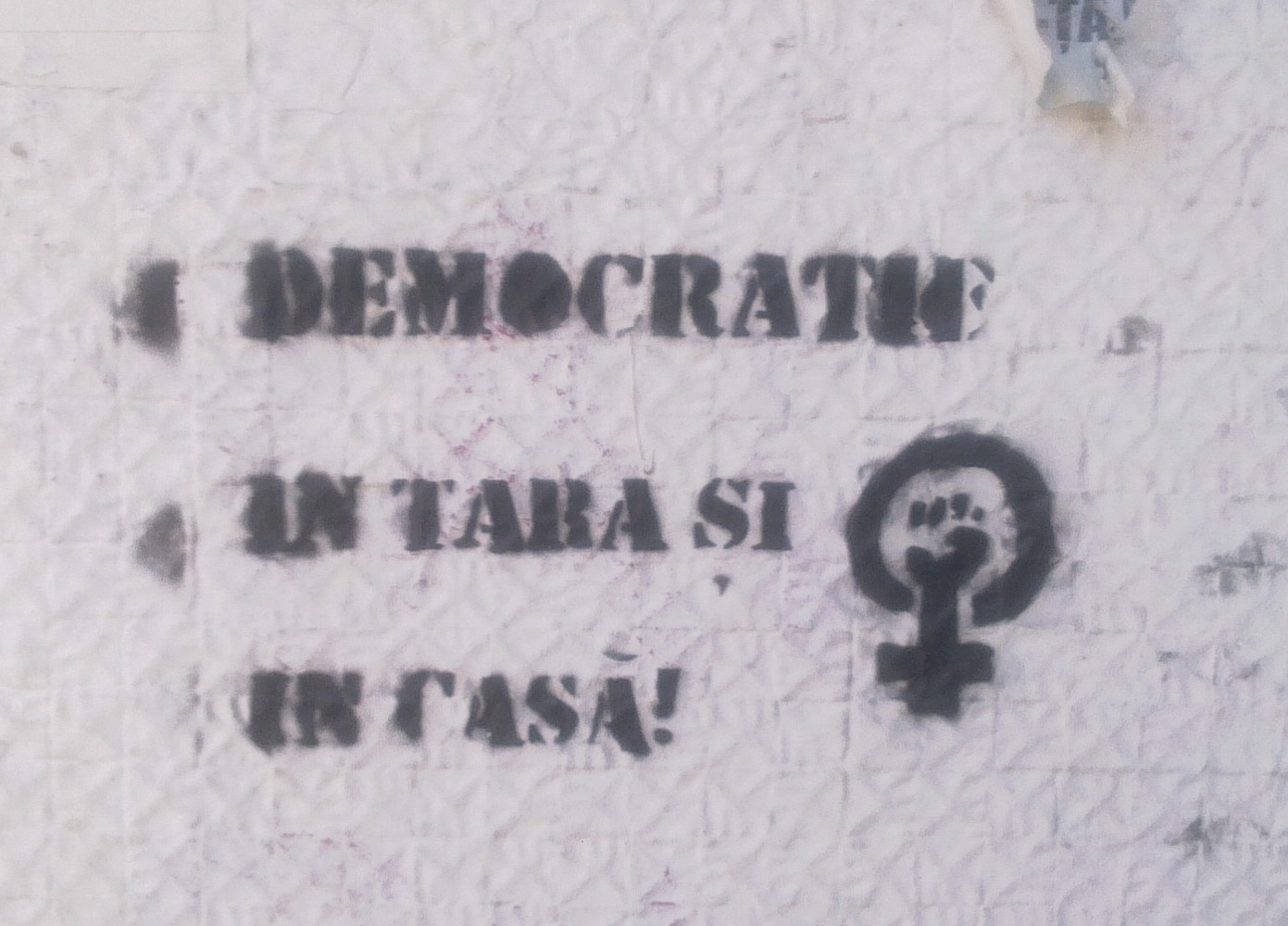 Anonymous tag in Romanian (Bucharest 2013) "Democracy on the hand and in the house (home)"